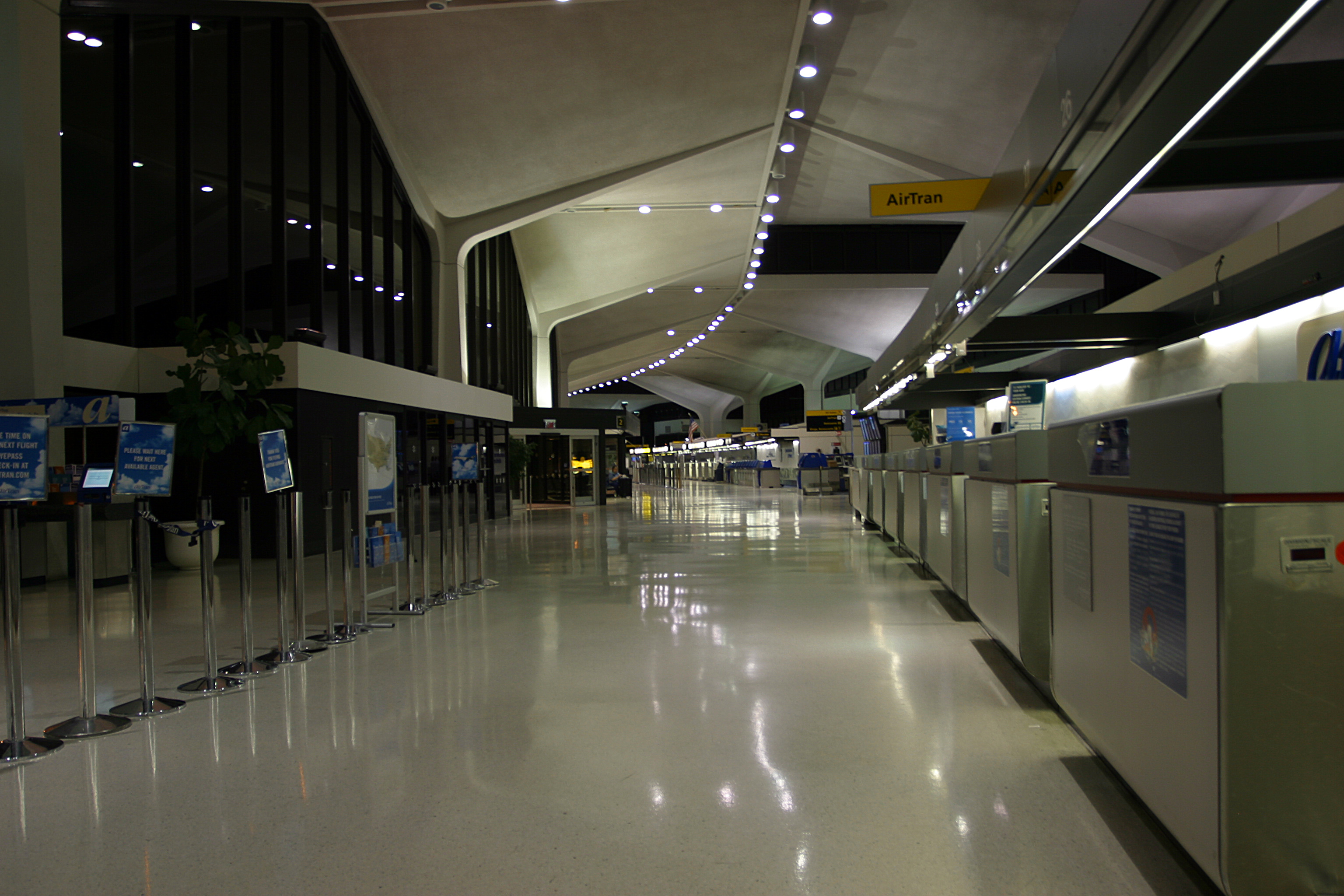 Newark Liberty International Airport (EWR) Terminal A at night in 2005.